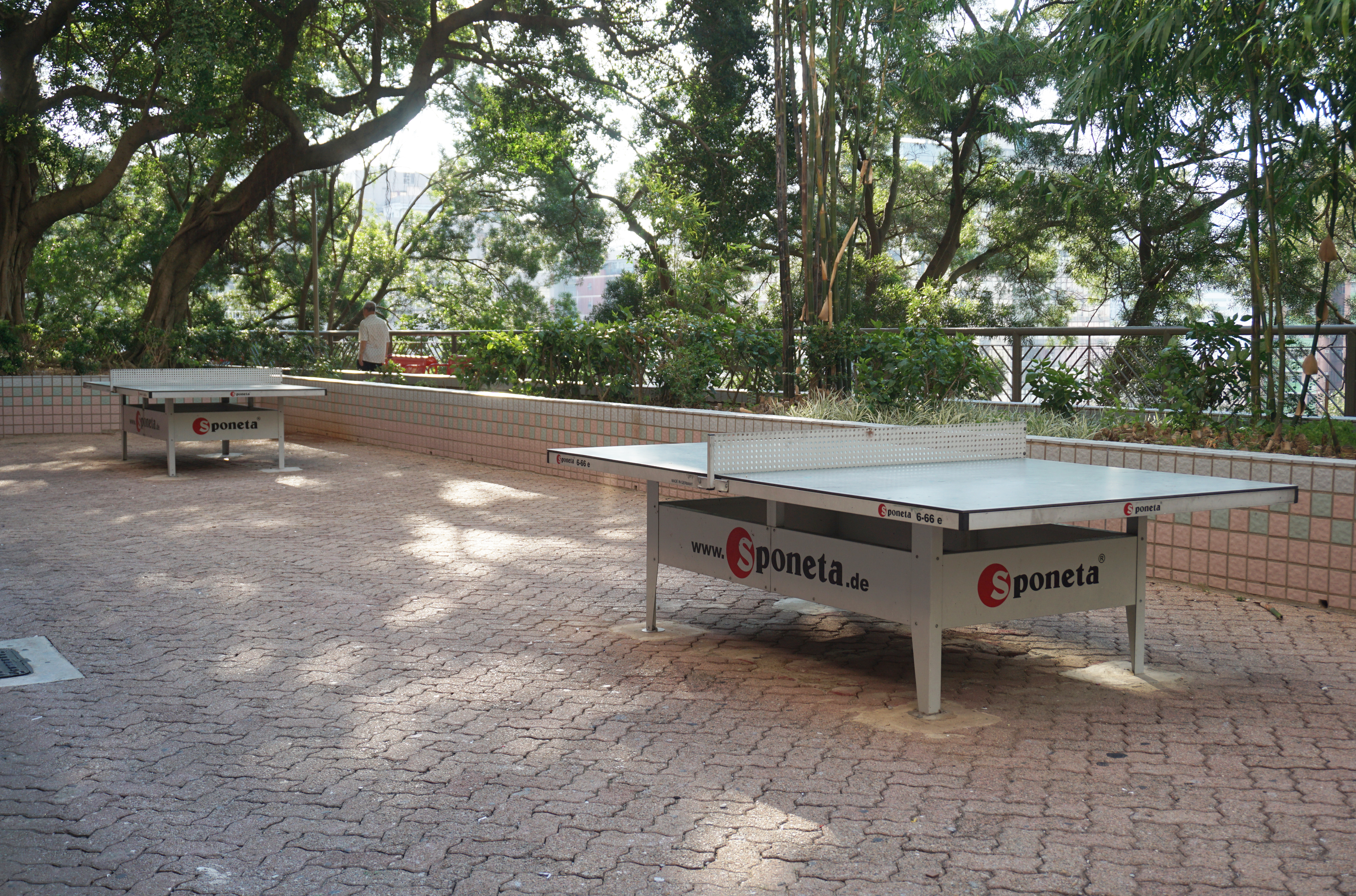 Shek Lei Estate in Kwai Chung, Hong Kong.